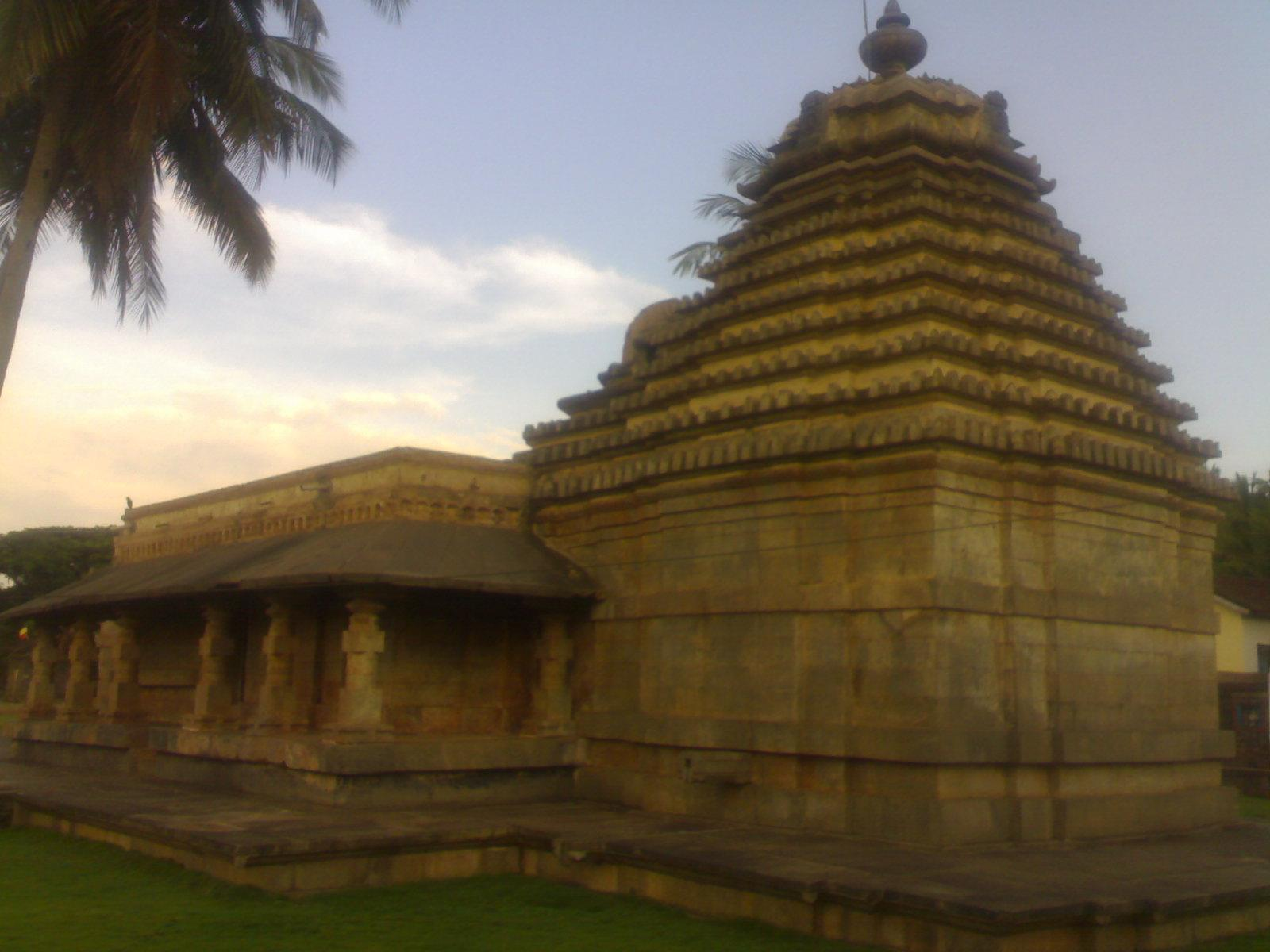 Halasi